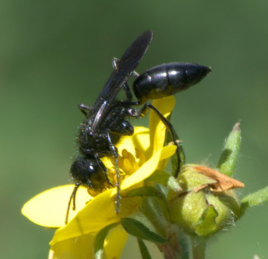 Podalonia, cutworm wasps, ID Confidence: 98